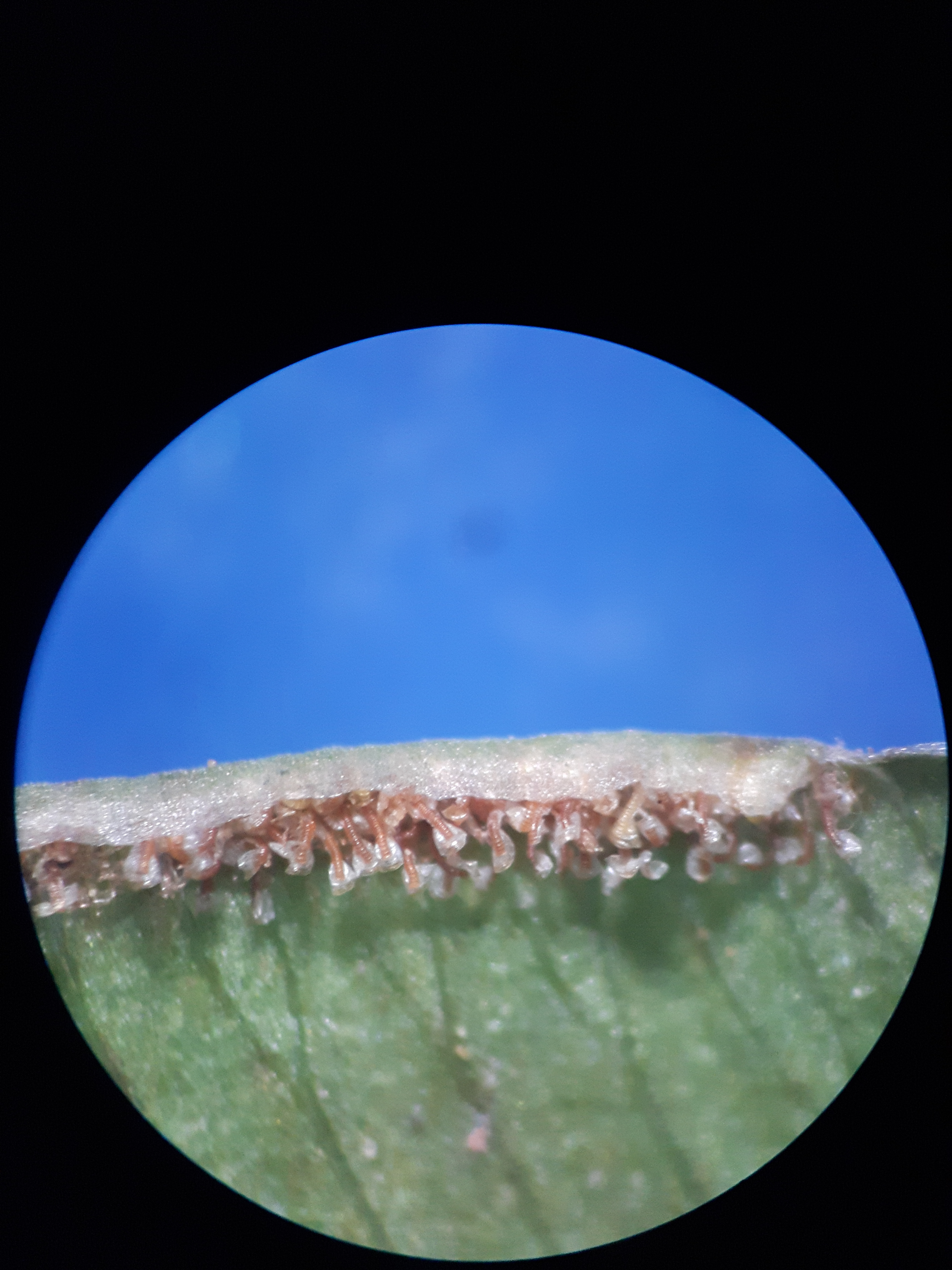 Pteris vittata sporangia